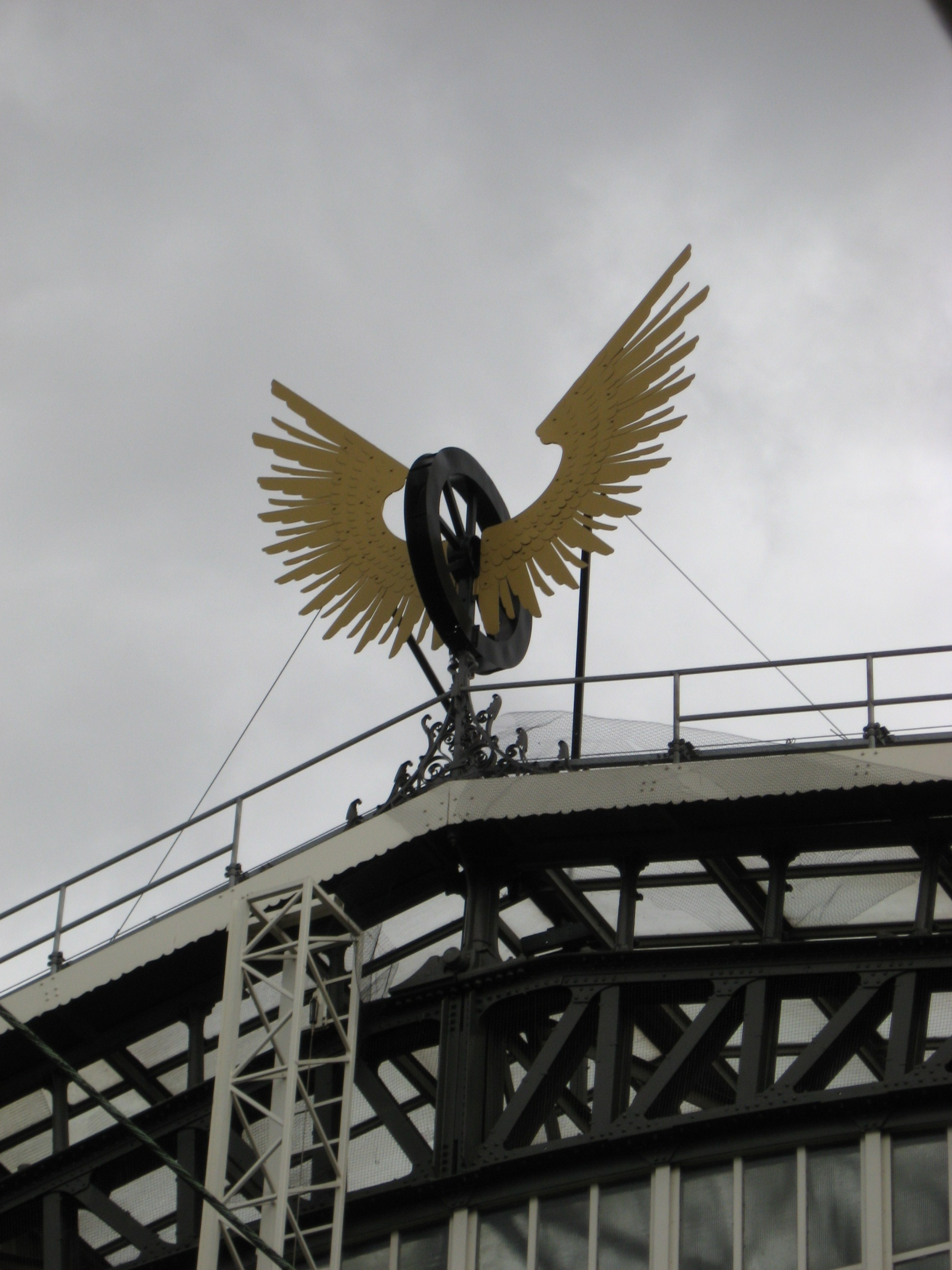 The flying wheel was the Dutch Railways symbol. This old symbol is stil visible on the main roof of Amsterdam Central Station on the west side.